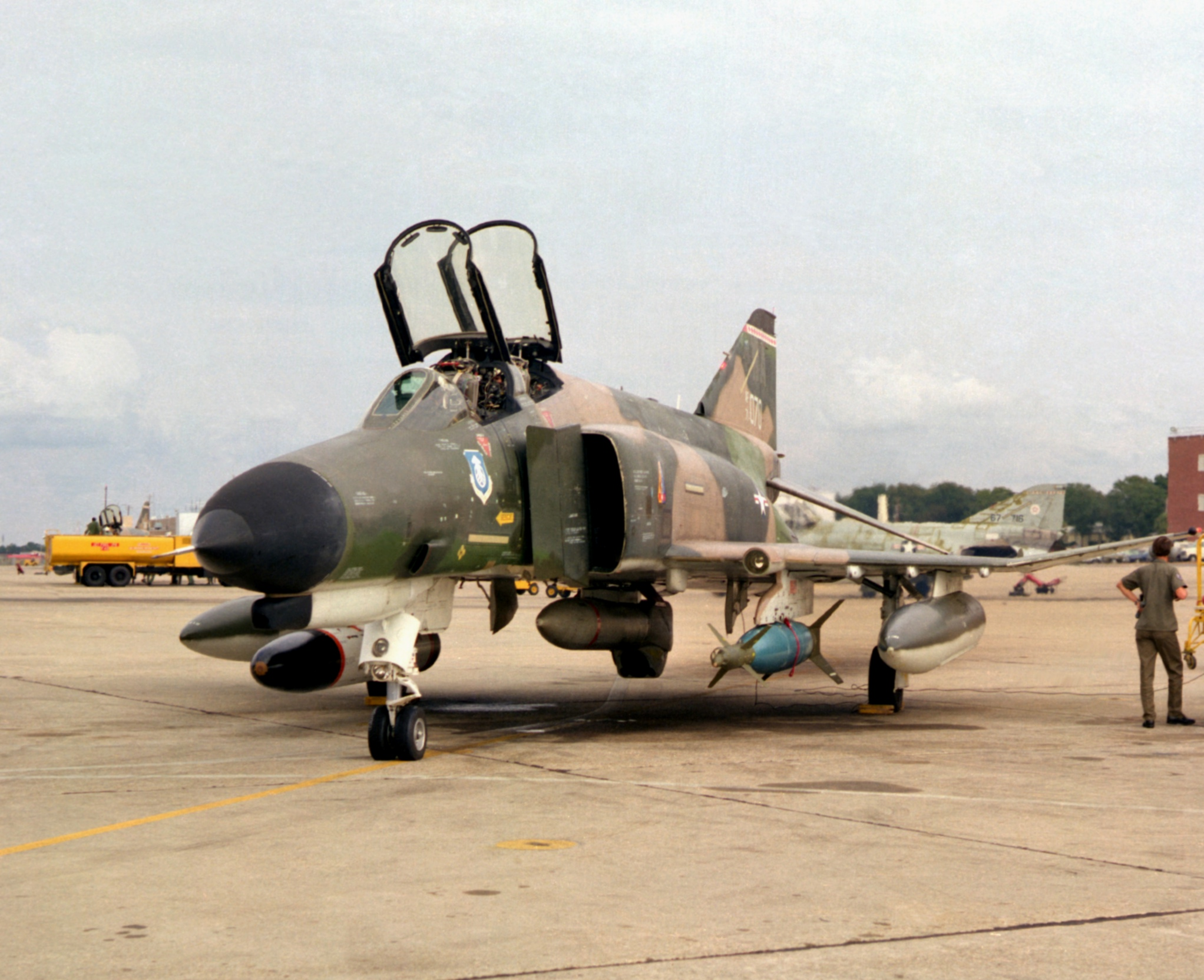 A U.S. Air Force Air Systems Command McDonnell Douglas F-4E-49-MC Phantom II aircraft (s/n 71-1070) equipped with an underwing fuel tank, a telemetry pod, a Pave Tack laser targeting pod, a GBU-10 laser guided bomb and another underwing tank, at Eglin Air Force Base, Florida (USA), on 9 December 1976.